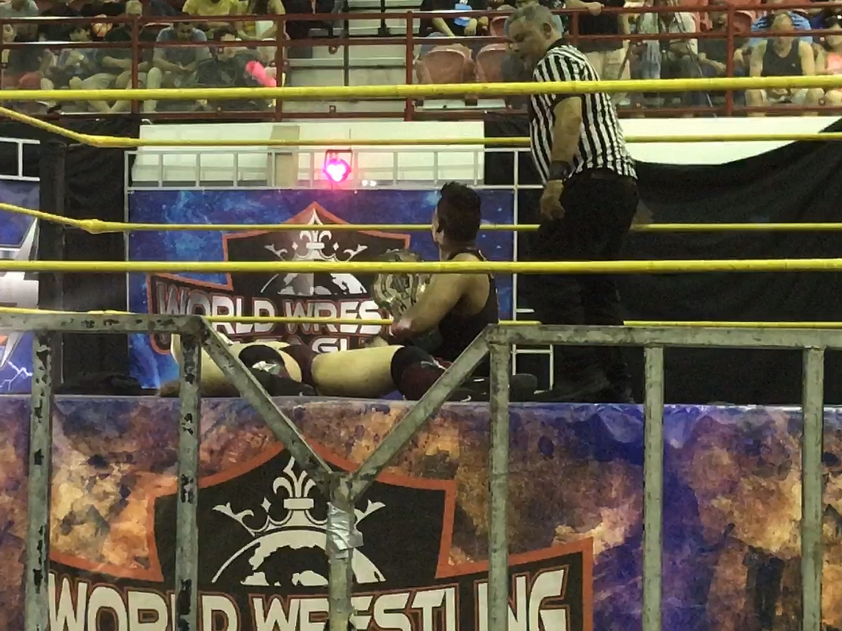 Profesional wrestler Dimes as WWL World Super Cruiserweight Champion.